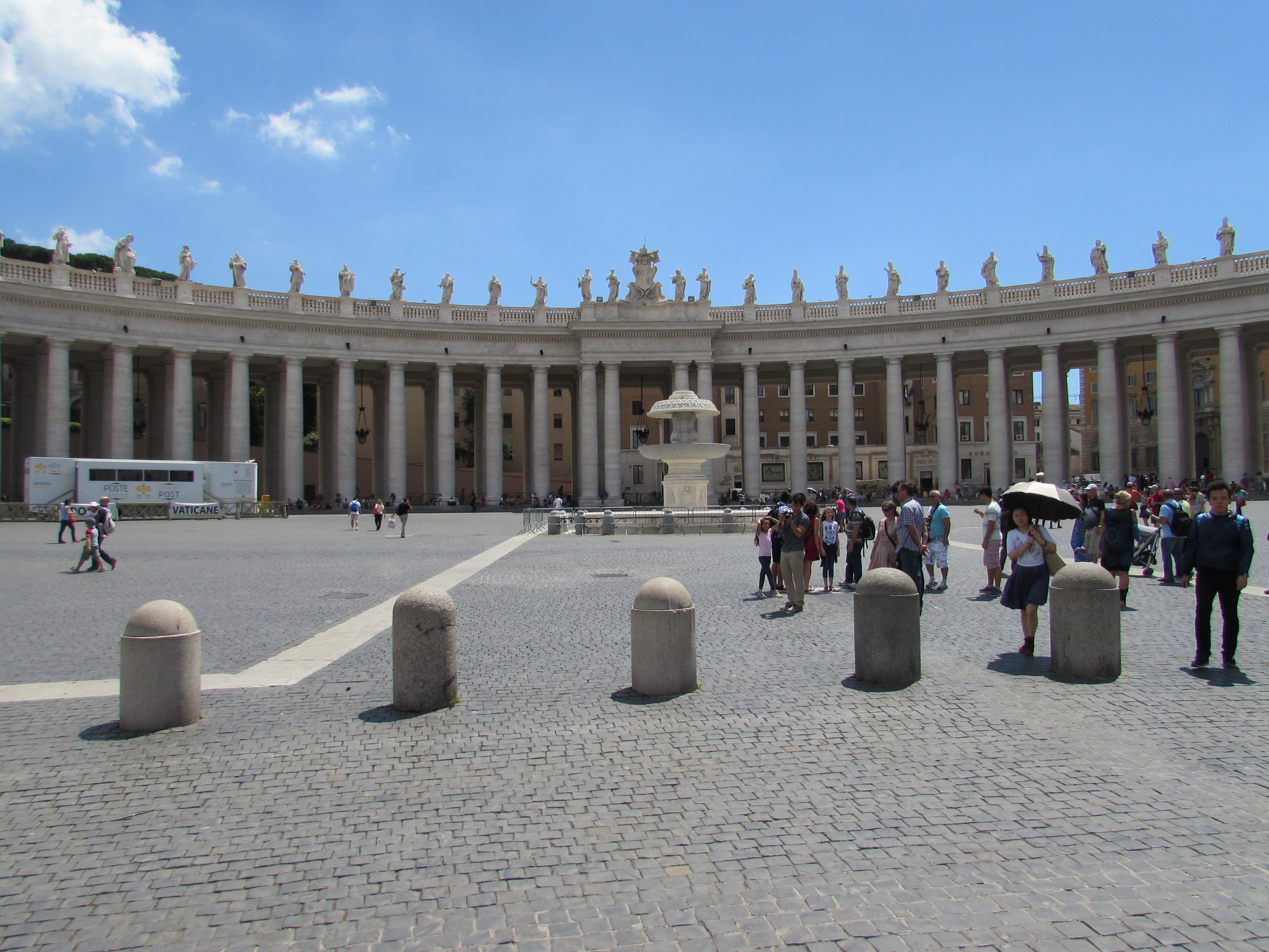 St. Peter's Basilica, Rome, Italy